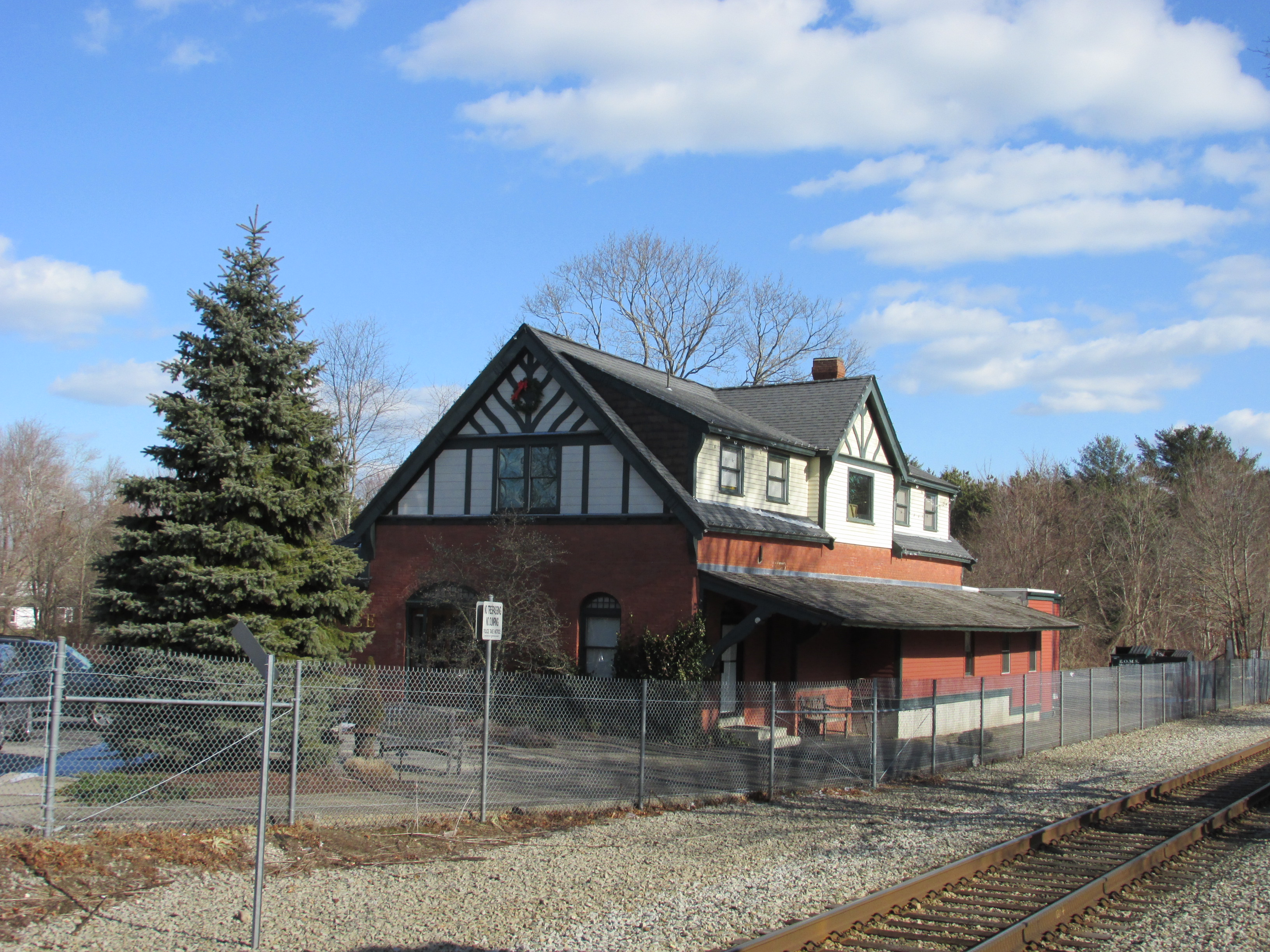 Solstice, Kingston Massachusetts